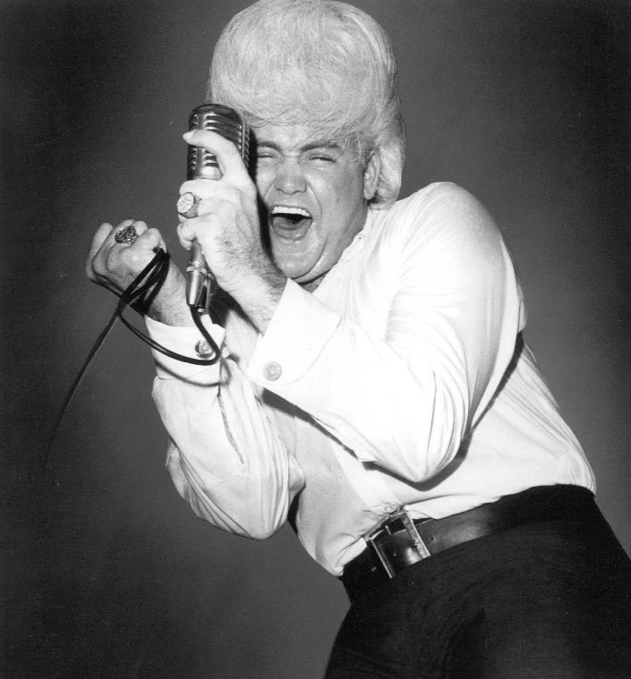 Publicity photo of singer Wayne Cochran.